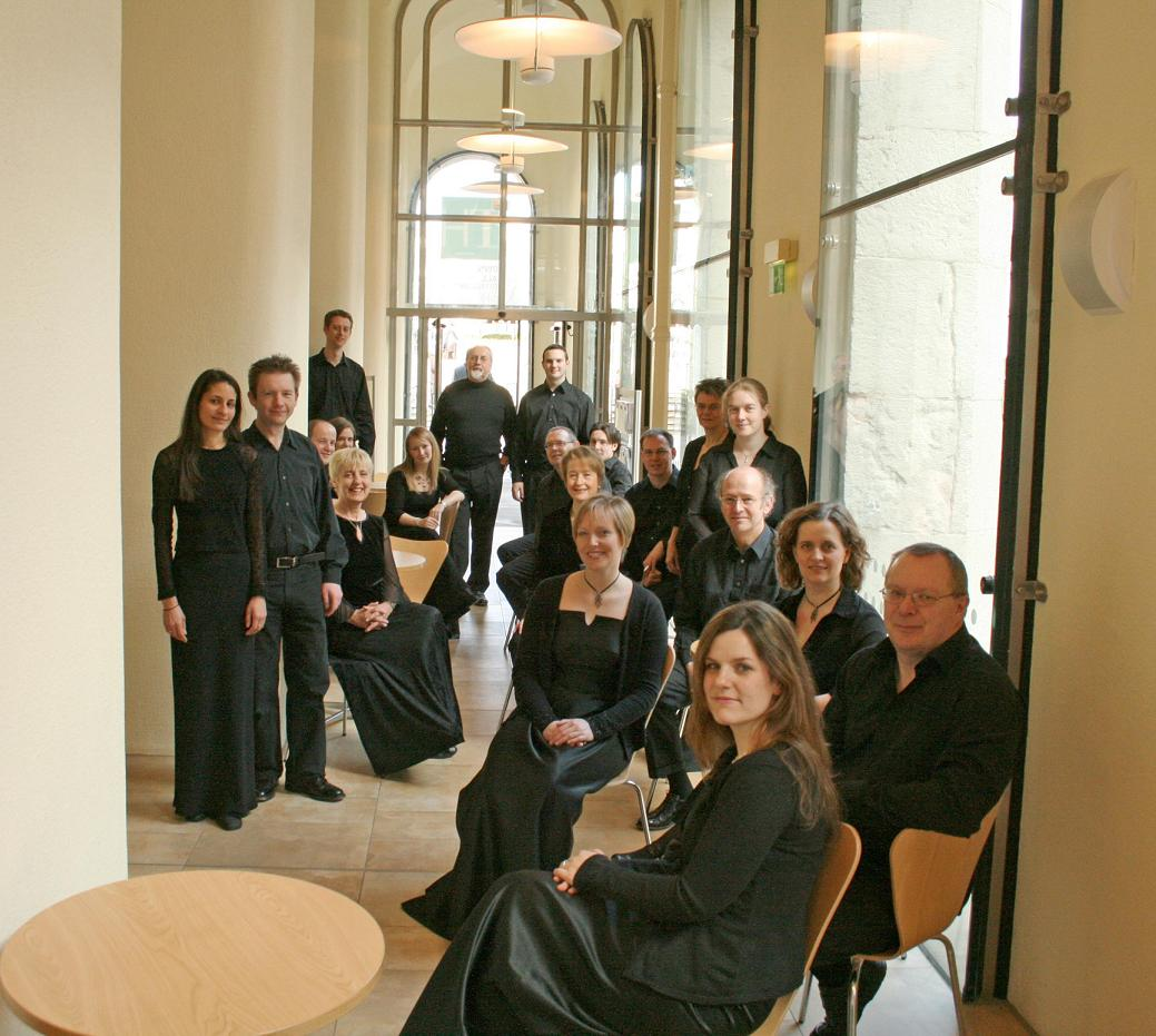 The Ex Cathedra Choir, a British choir based in Birmingham in the West Midlands, England, in the cafe of the Birmingham Town Hall. Jeffrey Skidmore, the choir's conductor and artistic director, is standing at the rear in front of the door.